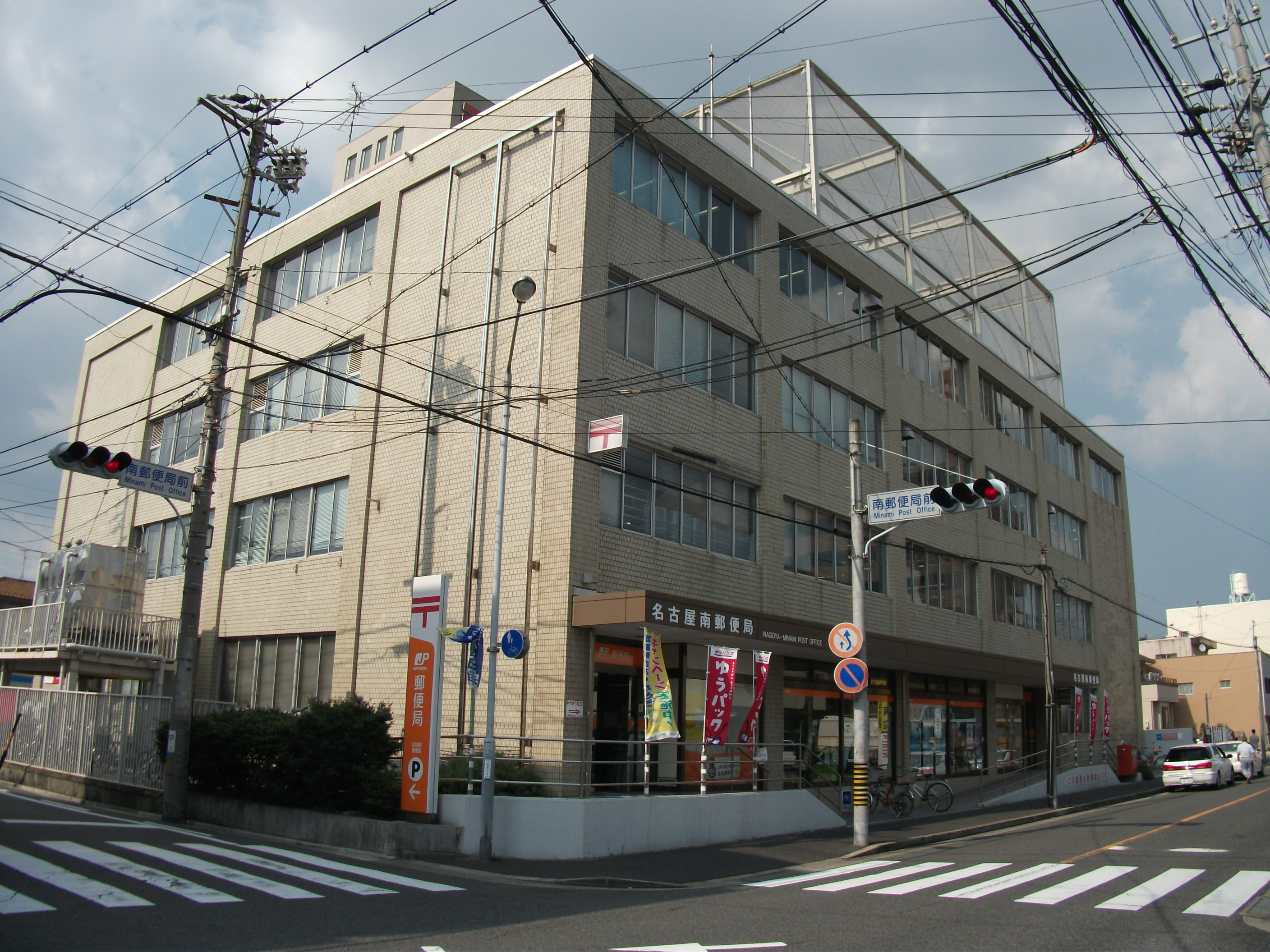 NagoyaminamiPostOffice